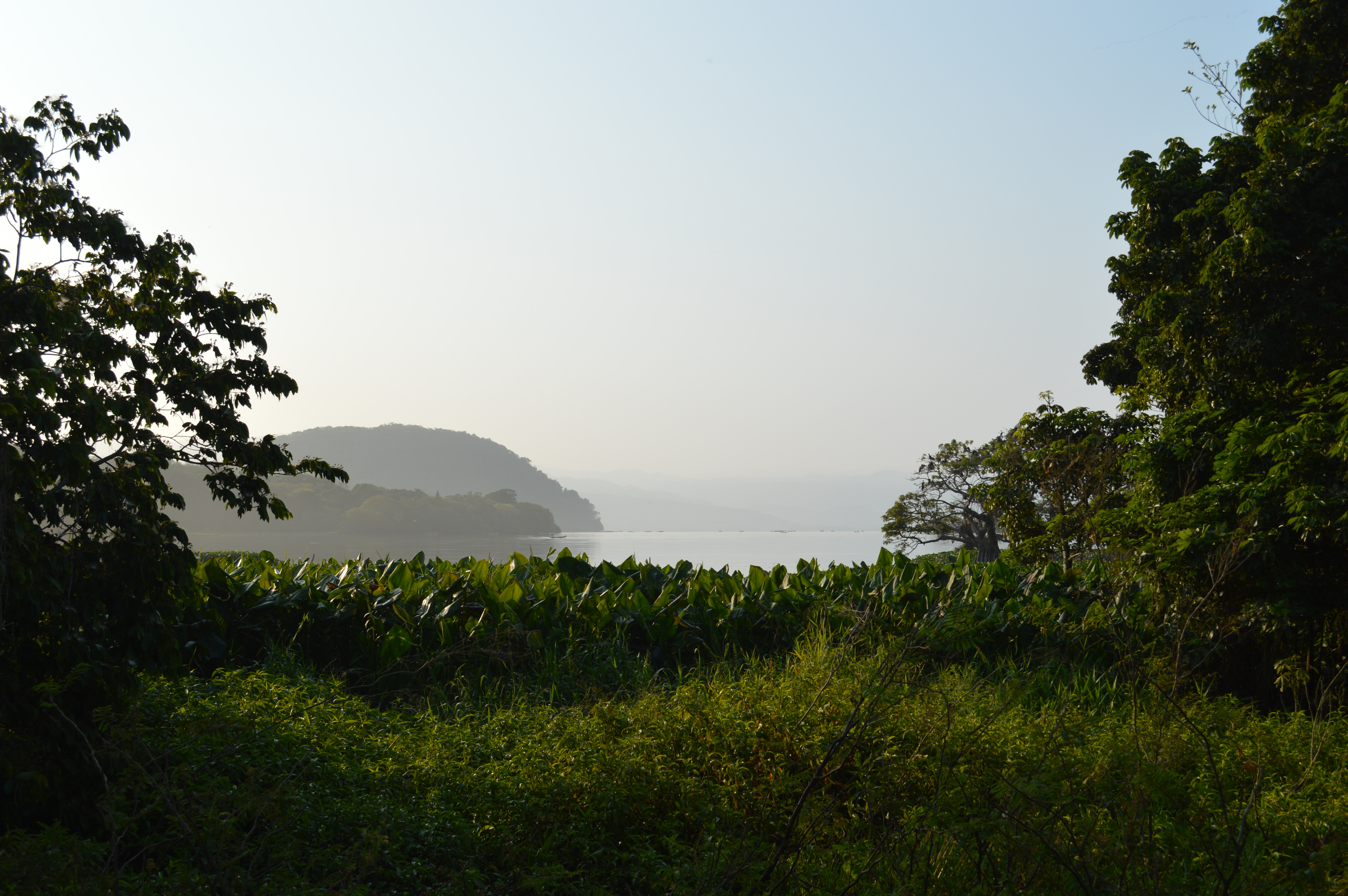 View of Lake Catemaco from the Xococapan Tourist Ranch in Catemaco, Veracruz, Mexico